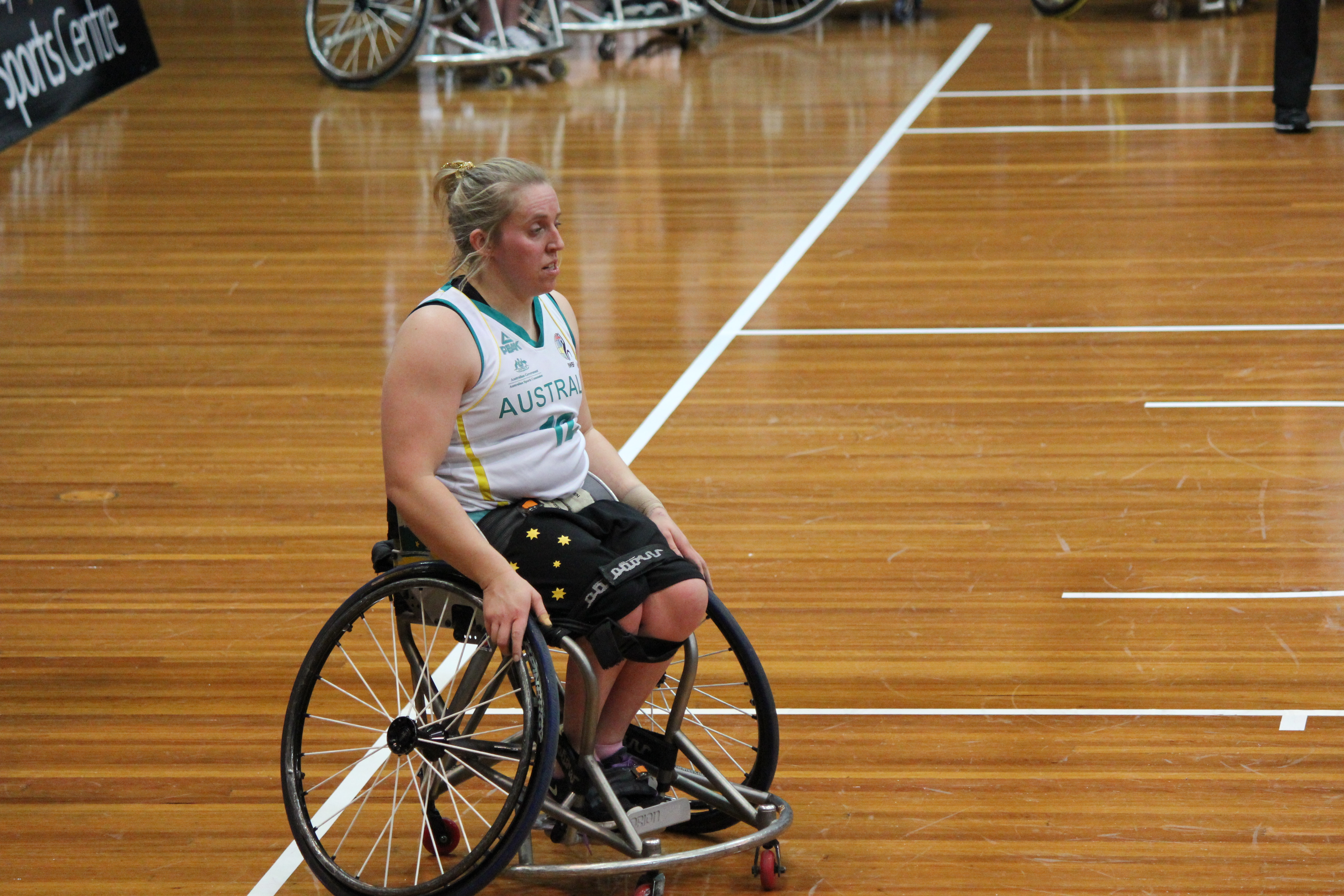 An Australian Glider player at the Australian Glider & Rollers World Challenge in July 2012.